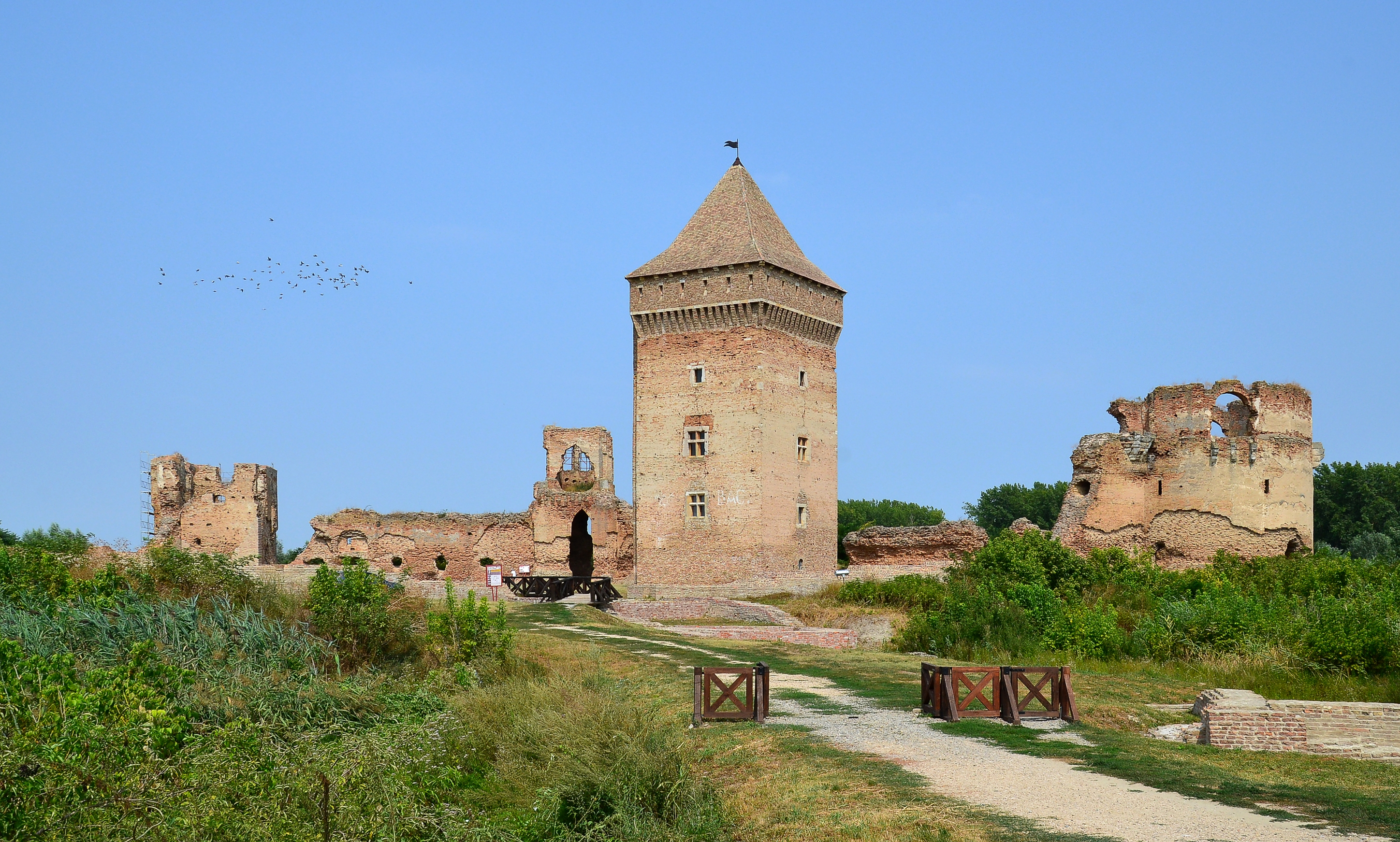 Bač (Bács) fortress, Vojvodina